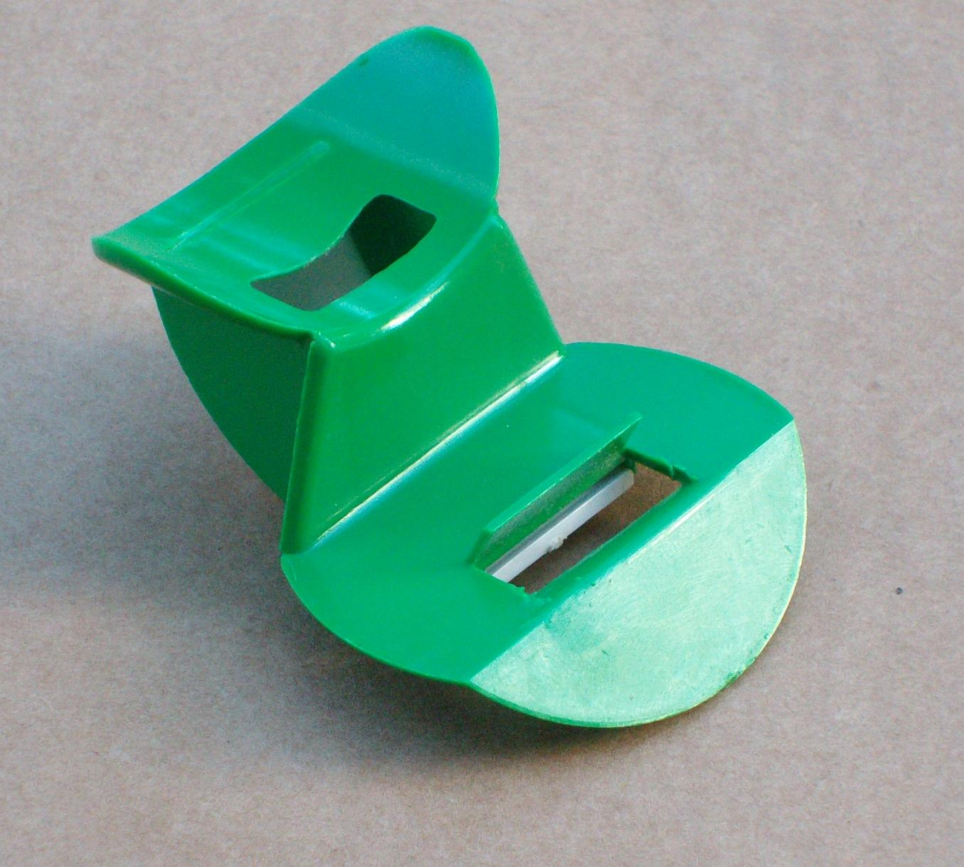 Back side of the plastic nose whistle, see Nose_whistle_plastic.front.JPF for front side.